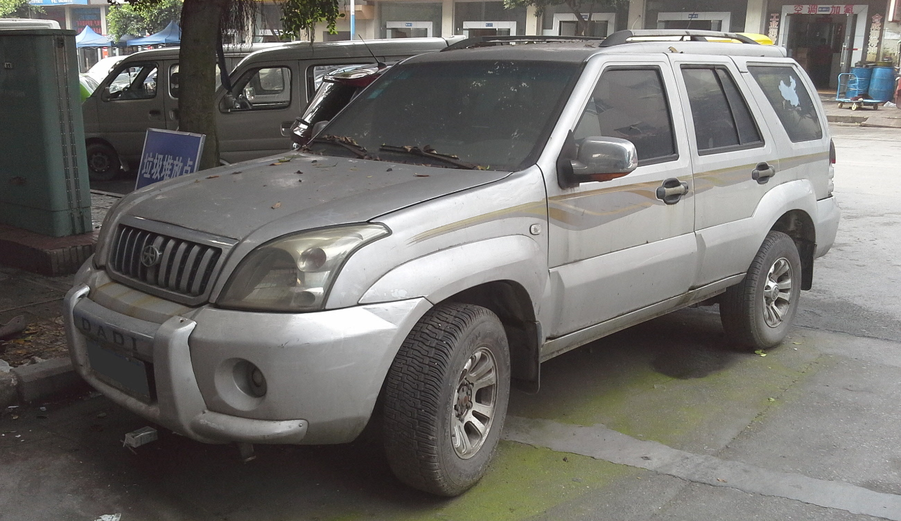 Dadi Auto Jingchi photographed in Chongqing, China.